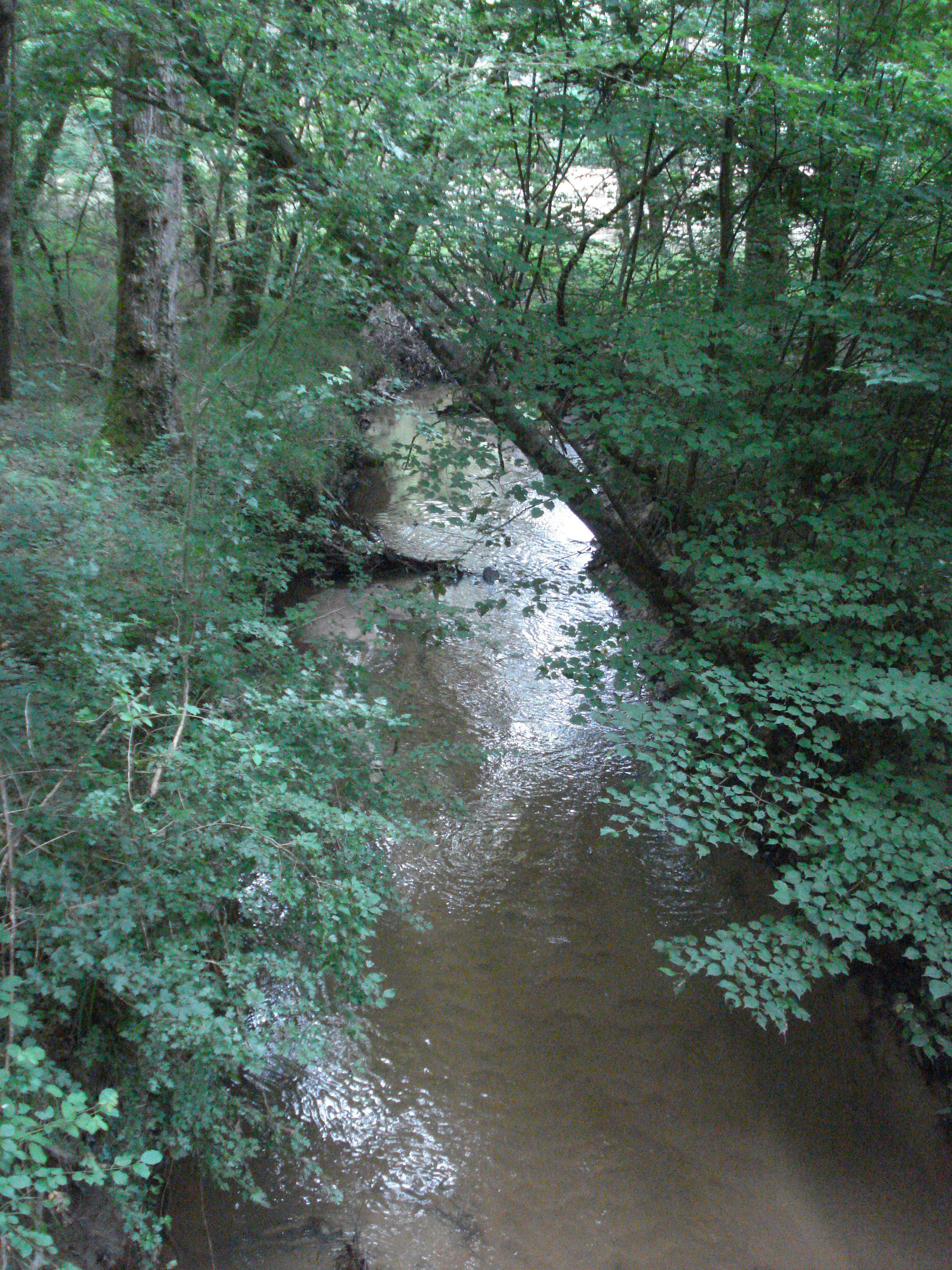 Lidoire river near Fraisse (Dordogne,Fr).